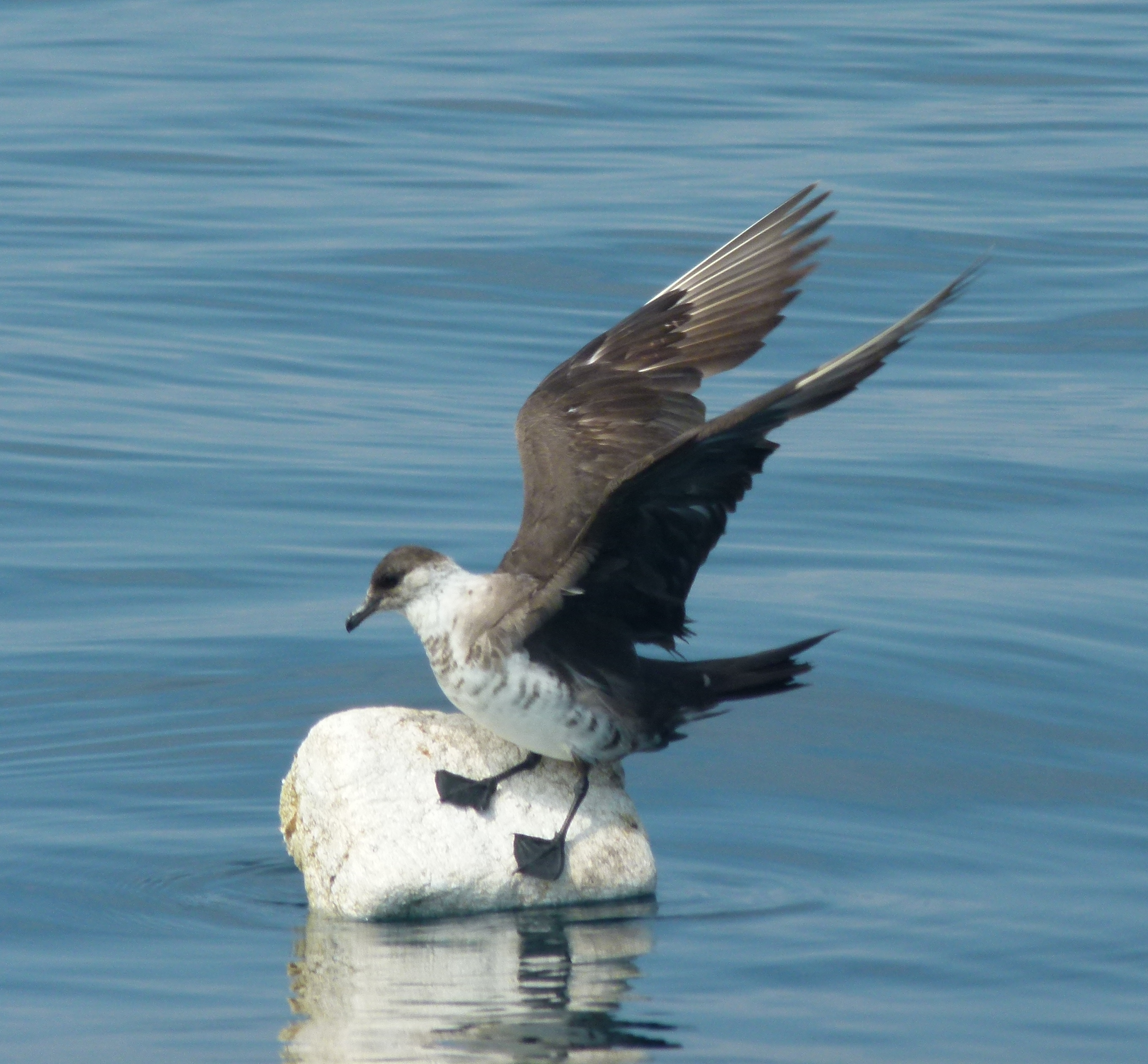 Arctic Skua (Stercorarius parasiticus) off Malpe, India